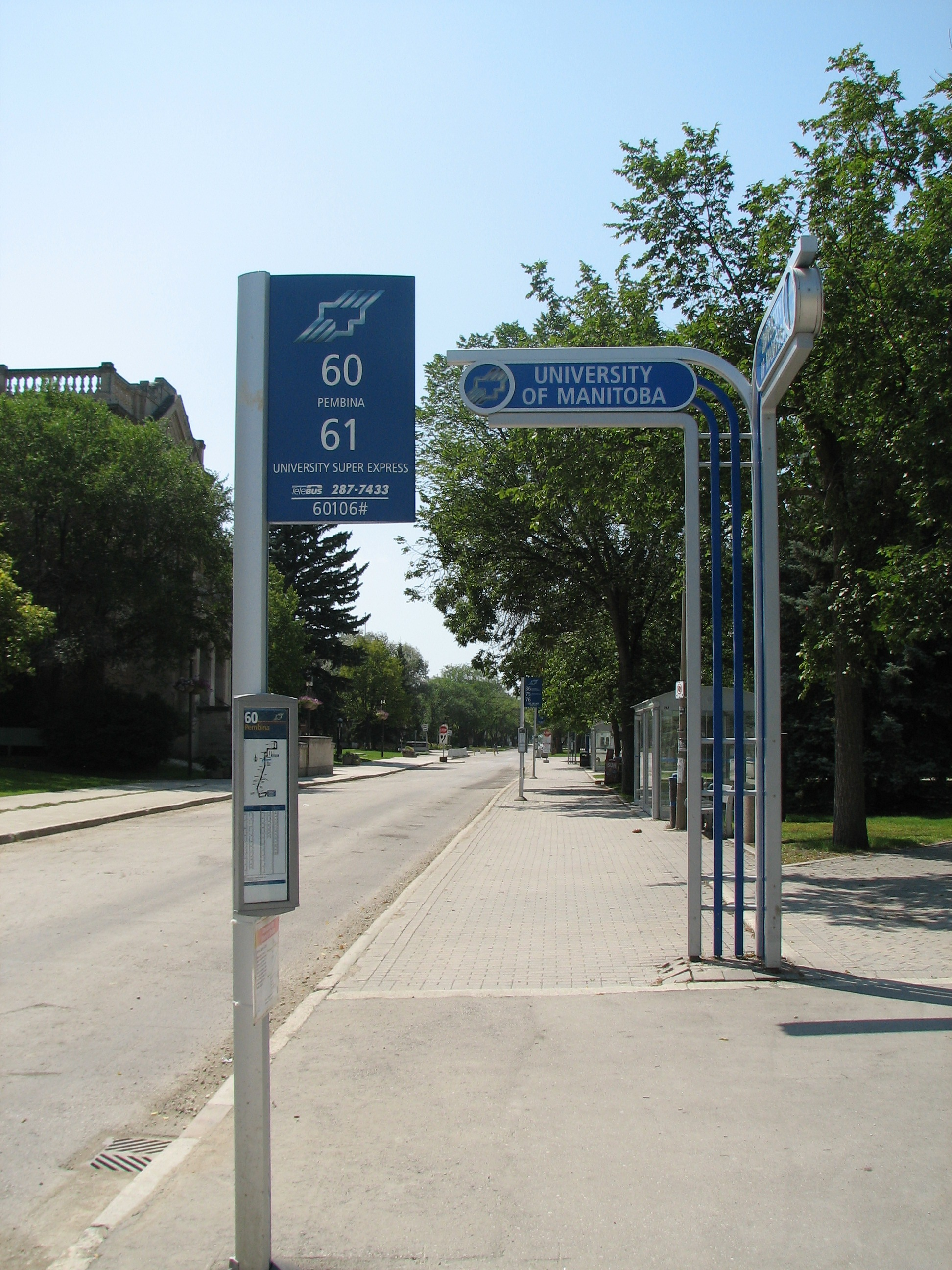 A bus stop at the University of Manitoba.